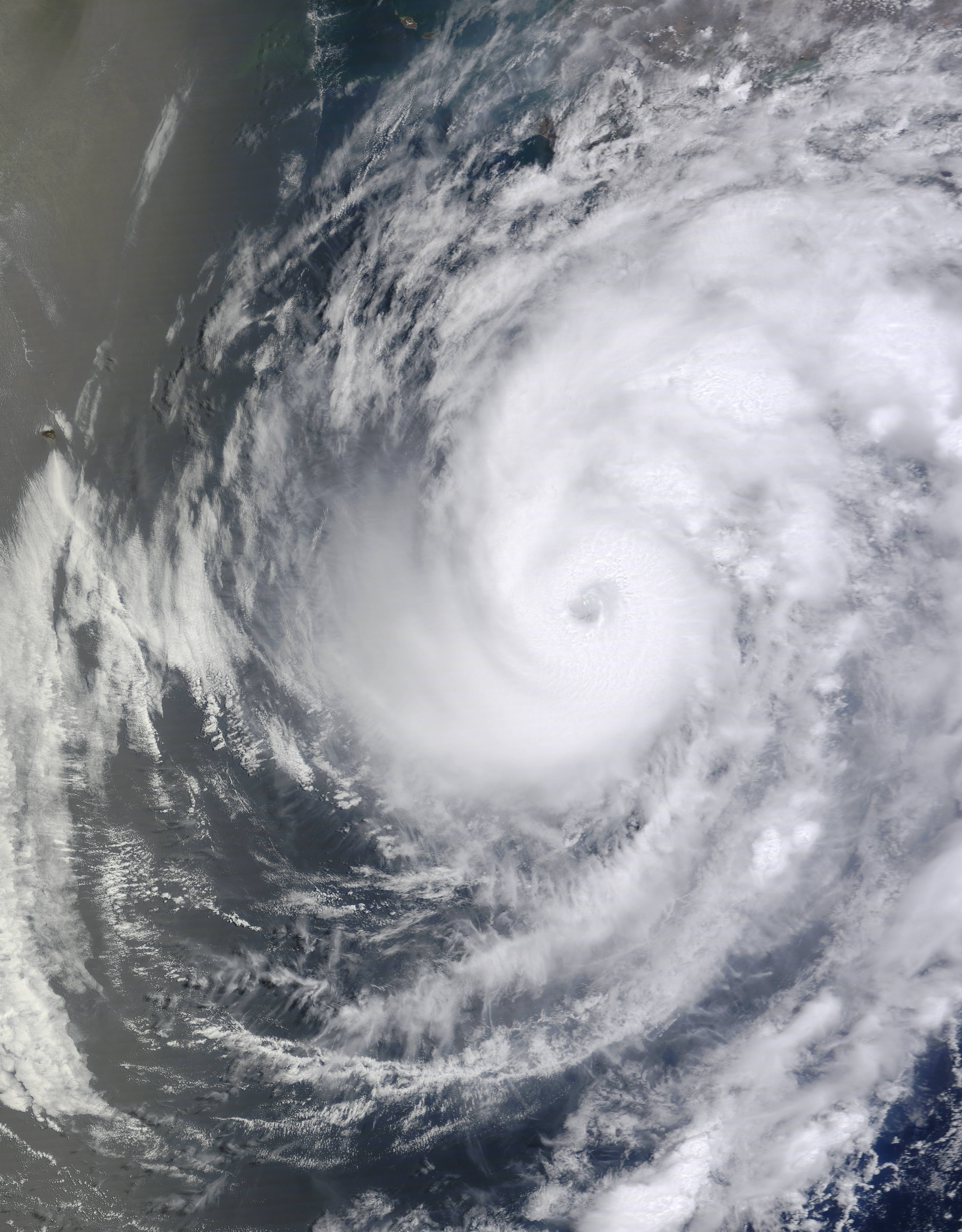 On May 25, 2012, Hurricane Bud was a Category 2 hurricane with sustained winds of 110 miles (175 kilometers) per hour. At 5:00 a.m. Pacific Daylight Time (PDT) on May 25, the U.S. National Hurricane Center (NHC) reported that Hurricane Bud was located roughly 105 miles (170 kilometers) southwest of Manzanillo, Mexico, and was headed toward Mexico’s southwestern coast. The Moderate Resolution Imaging Spectroradiometer (MODIS) on NASA’s Terra satellite captured this natural-color image around 11:15 a.m. PDT on May 24. Having organized since the previous day, Bud sported a distinct eye characteristic of strong storms. At 5:00 a.m. PDT on May 25, the NHC forecast that Bud could reach the coast of Mexico later that day. The NHC reported a hurricane warning for the coast of Mexico from Manzanillo to Cabo Corrientes, and a tropical storm warning from Punta San Telmo to east of Manzanillo. The NHC warned that Bud could produce a dangerous storm surge and several inches of rain, and urged residents to prepare quickly to protect lives and property.